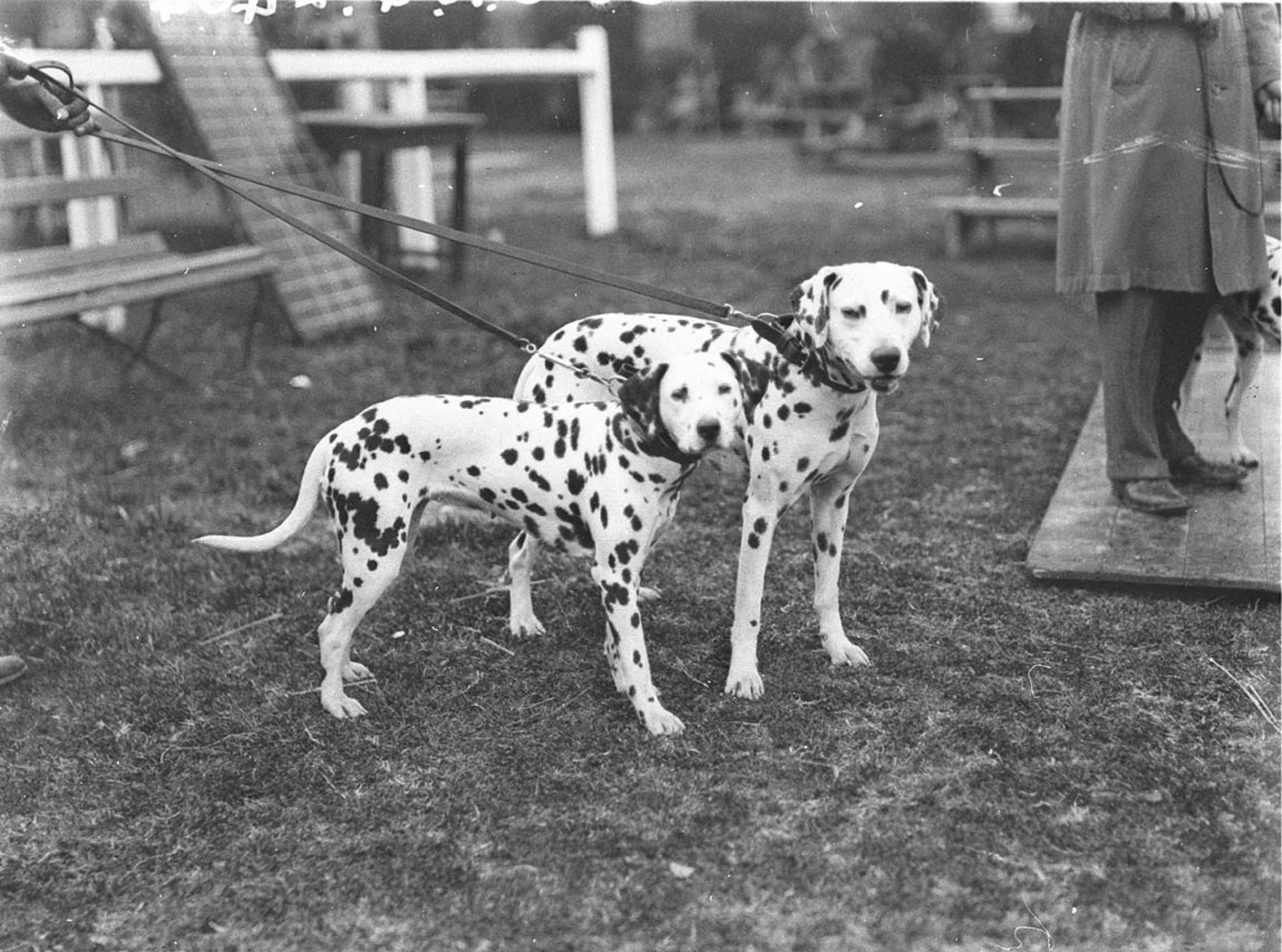 Champion Dalmatian dog and bitch